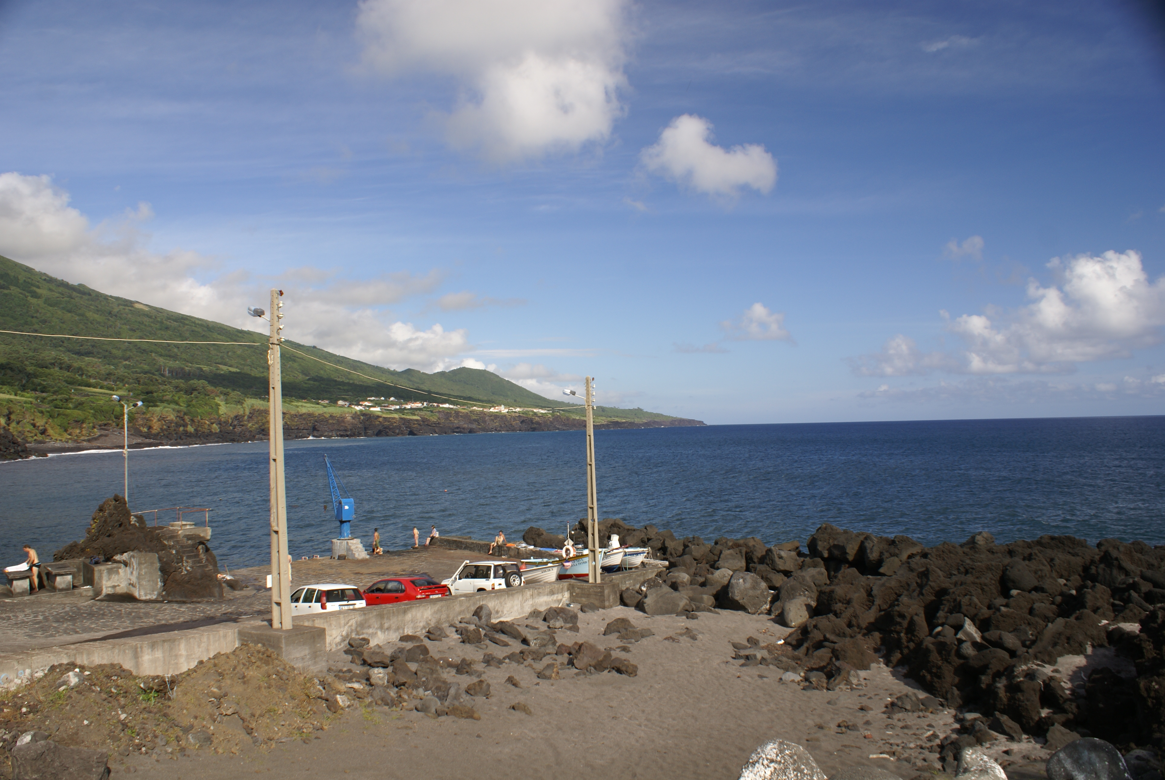 Fishing port of Galeão, in São Caetano, municipality of Madalena, Pico (Azores), Portugal